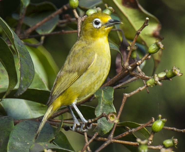 Yellowish White-eye (Zosterops nigrorum), Luzon, Philippinnes